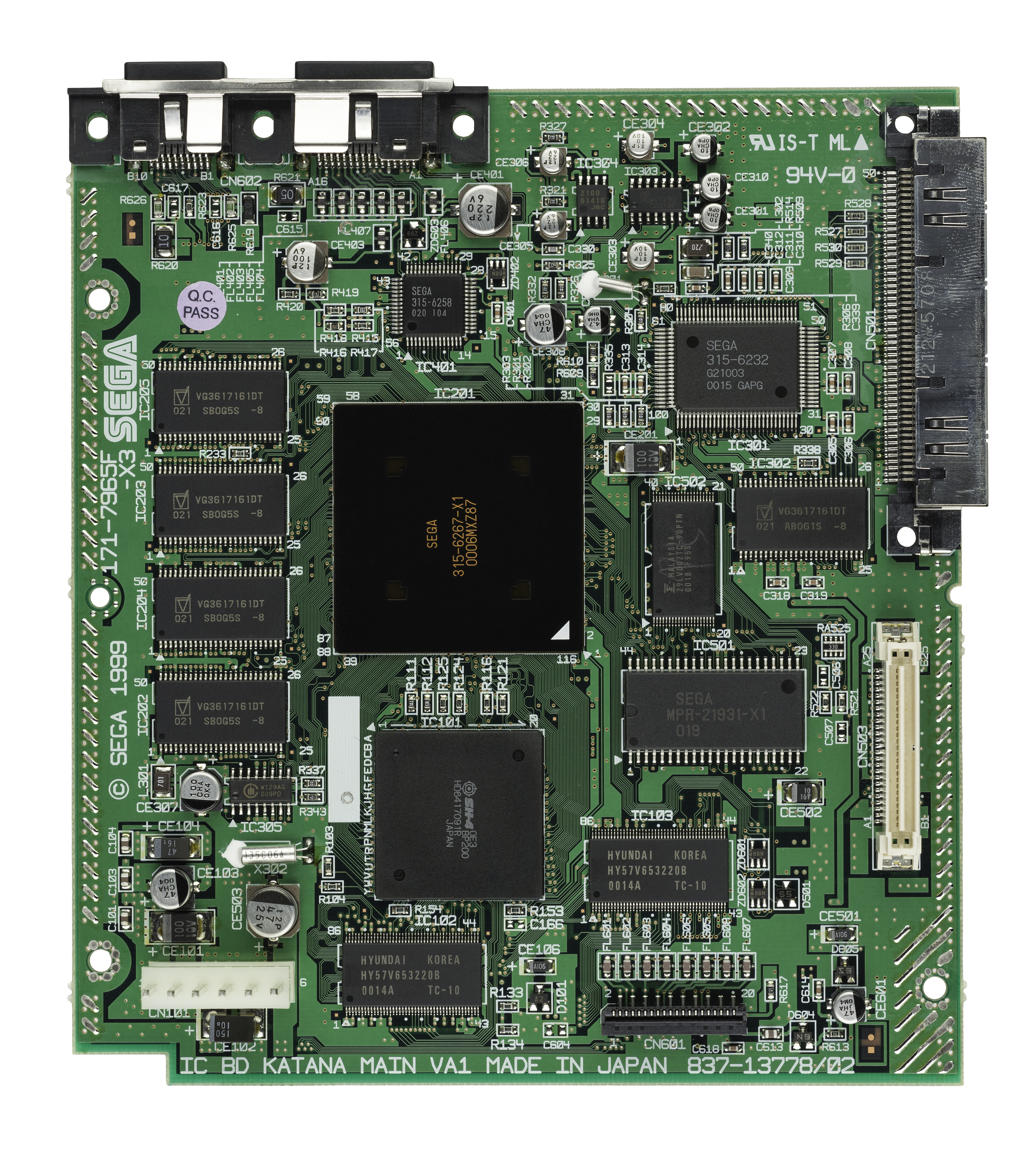 The motherboard of a Sega Dreamcast, a video game console released in 1999 in North America. The system is powered by a custom Hitachi RISC processor clocked at 200 MHz and an NEC PowerVR2 graphics processor clocked at 100 MHz.